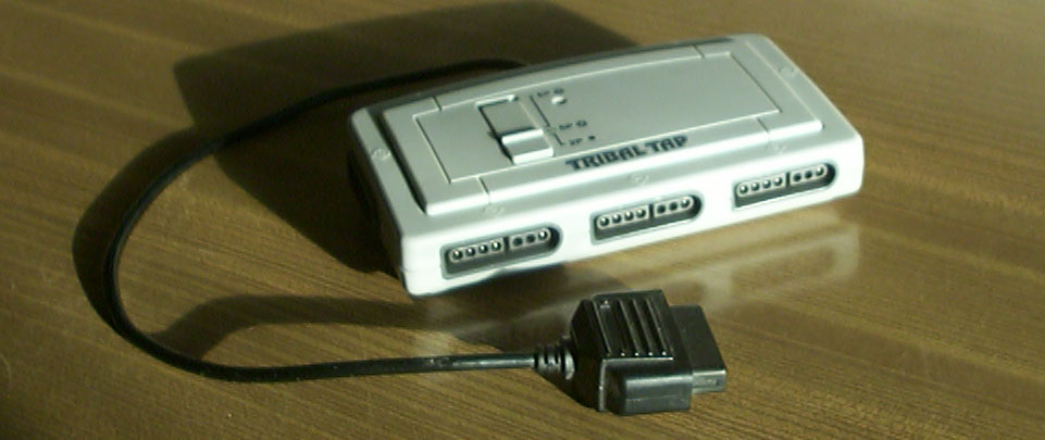 The Tribal Tap is a 3rd party multitap for the Super Famicom/SNES. It has five controller connectors, thus up to six players are possible (controller 1 is connected directly to the SFC/SNES).